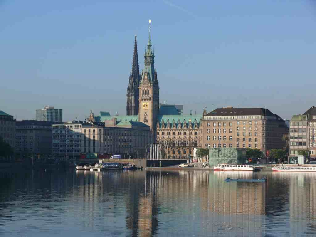 Hamburg, Town Hall and St. Nikolai Tower seen from the inner Alster